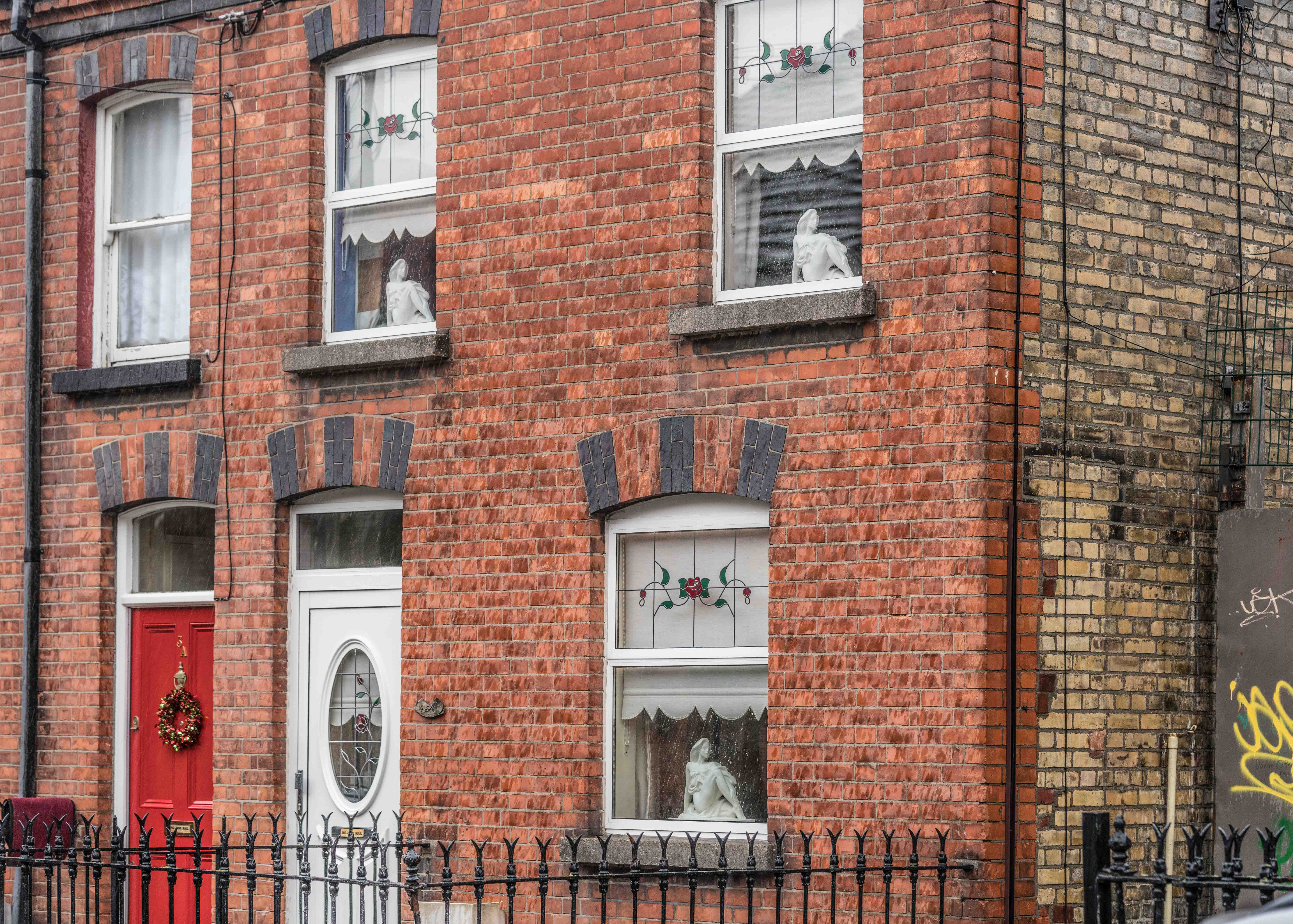 In 2010 I began to notice that in certain areas of the city of Dublin many houses featured a white statue of a reclining nude [semi-nude] in their front windows [in many cases all of their front windows]. On the last day of 2015 I came across her again near Teelings Distillery. Officially she’s the ‘Lady On The Rock’ but her name depended on her location [ For example: the Lady Of Cabra in Cabra, the White Lady Of Clondalkin in Clondalkin ] and she spread throughout the city at an amazing rate , beginning with her introduction to Dublin Mouldings, a supplier of fireplaces and plasterwork located on Parnell Street on the north side of the city.